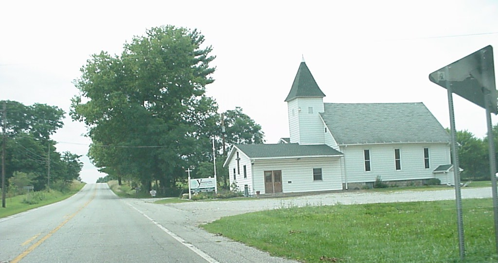 Yountsville Comunity Church located in Yountsville Indiana